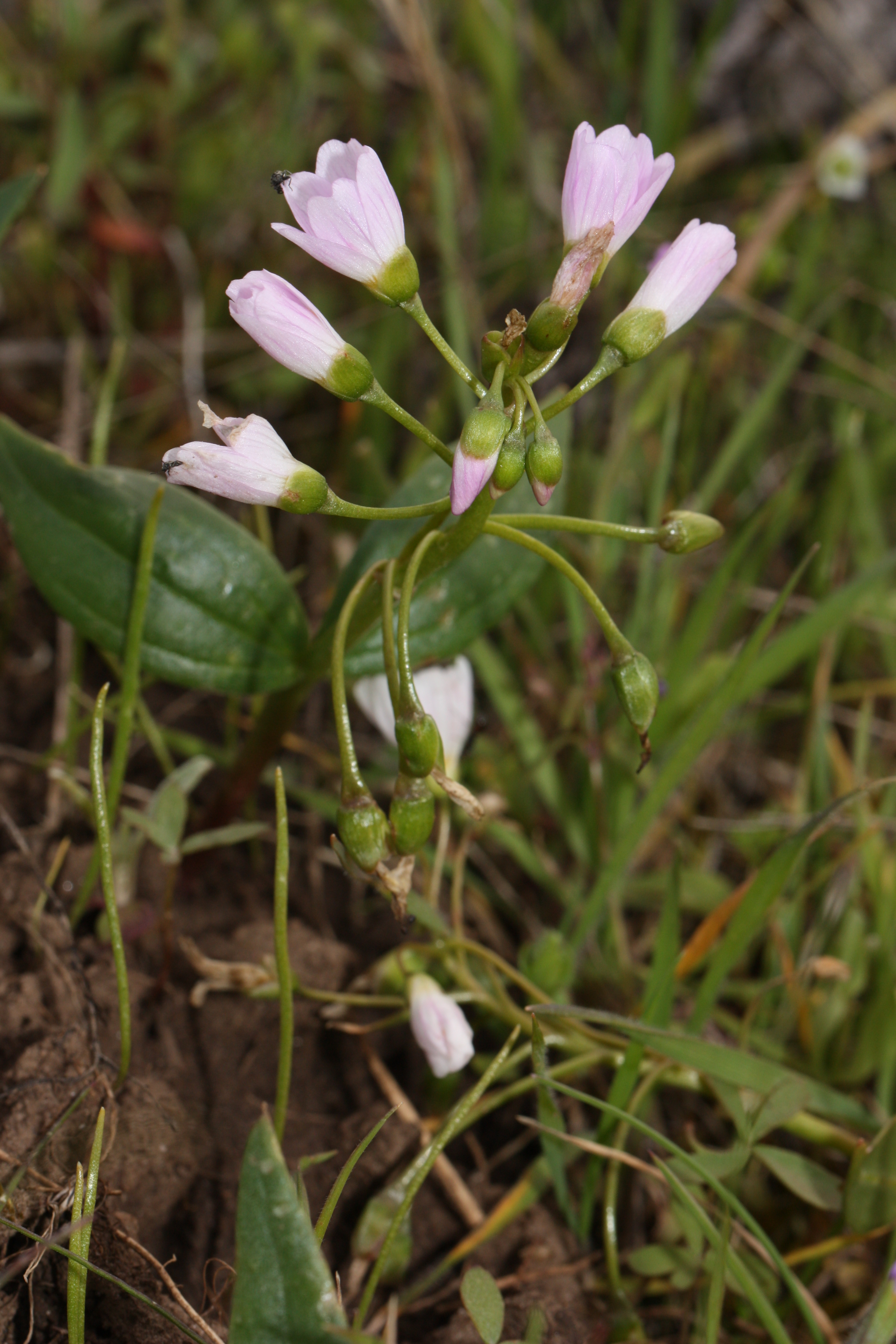 Lanceleaf Springbeauty Viewpoint location: McCall Point Trail, Tom McCall Preserve Viewpoint elevation: 504 meter (1655 ft) Location source: Garmin GPSmap 60CSx Location Datum: WGS84